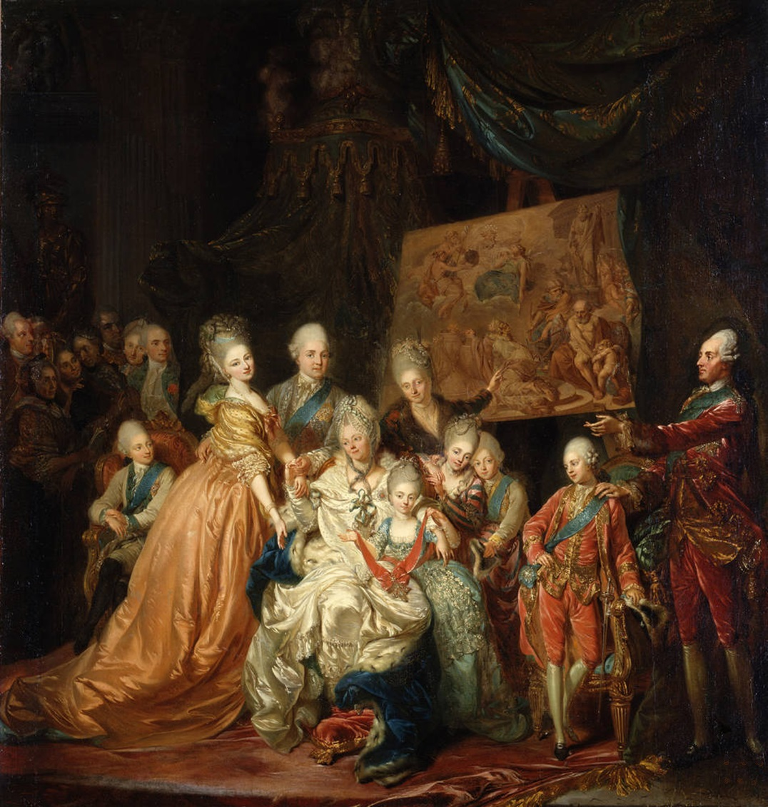 Left to right: Karl of Saxony (1752-1781), Maria Amalia Augusta of Zweibrücken-Birkenfeld (1752-1828), Frederick Augustus I of Saxony (1750-1827), Maria Antonia Walpurgis of Bavaria (1724-1780), Maria Anna of Saxony (1761-1820), Maria Amalia of Saxony (1757–1831), Maximilian, Crown Prince of Saxony (1759-1838), Anthony of Saxony (1755-1836) and Prince regent Franz Xavier of Saxony (1730-1806).